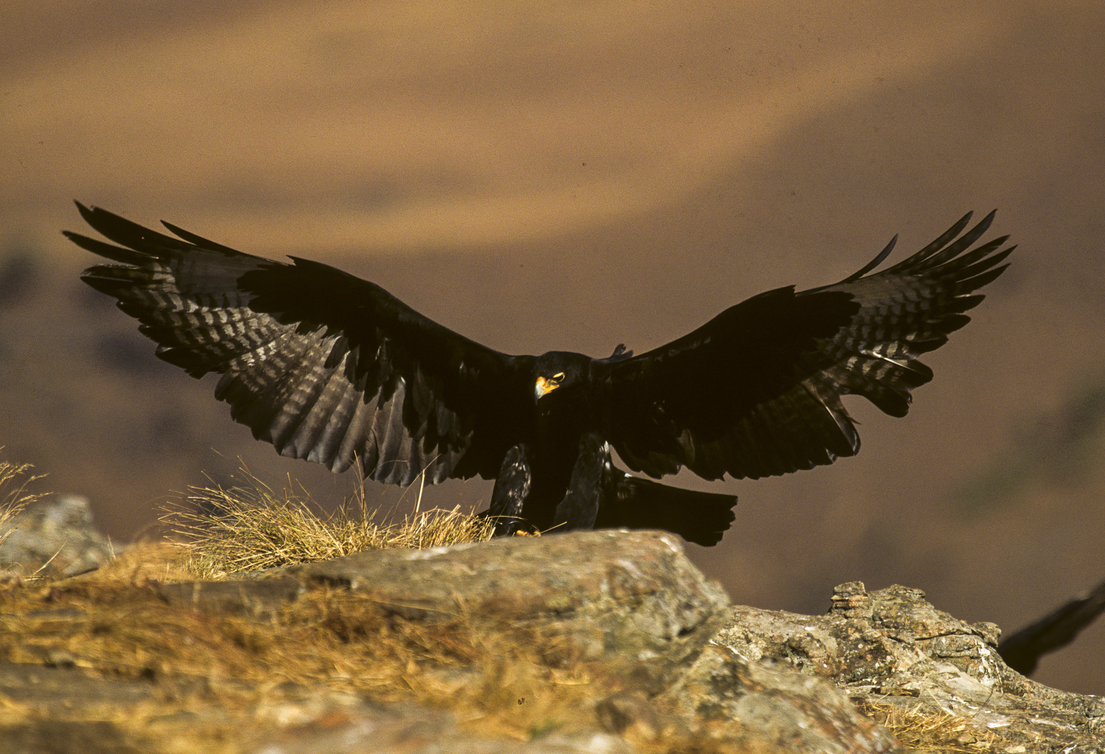 Verreaux's Eagle - Giant Castle - South-Africa_010003